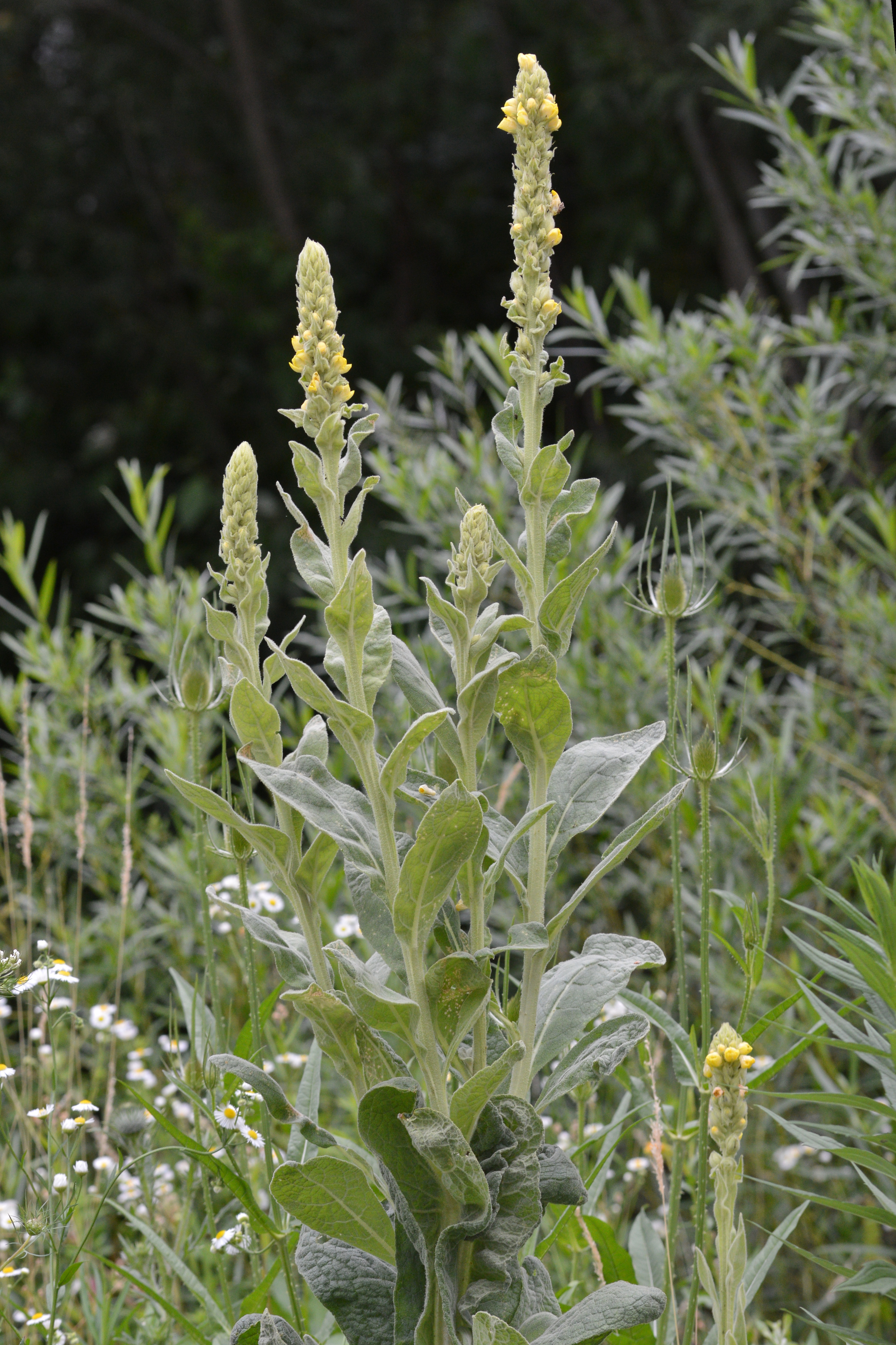 Common Mullein (Verbascum thapsus) in Kitchener, Ontario, Canada.